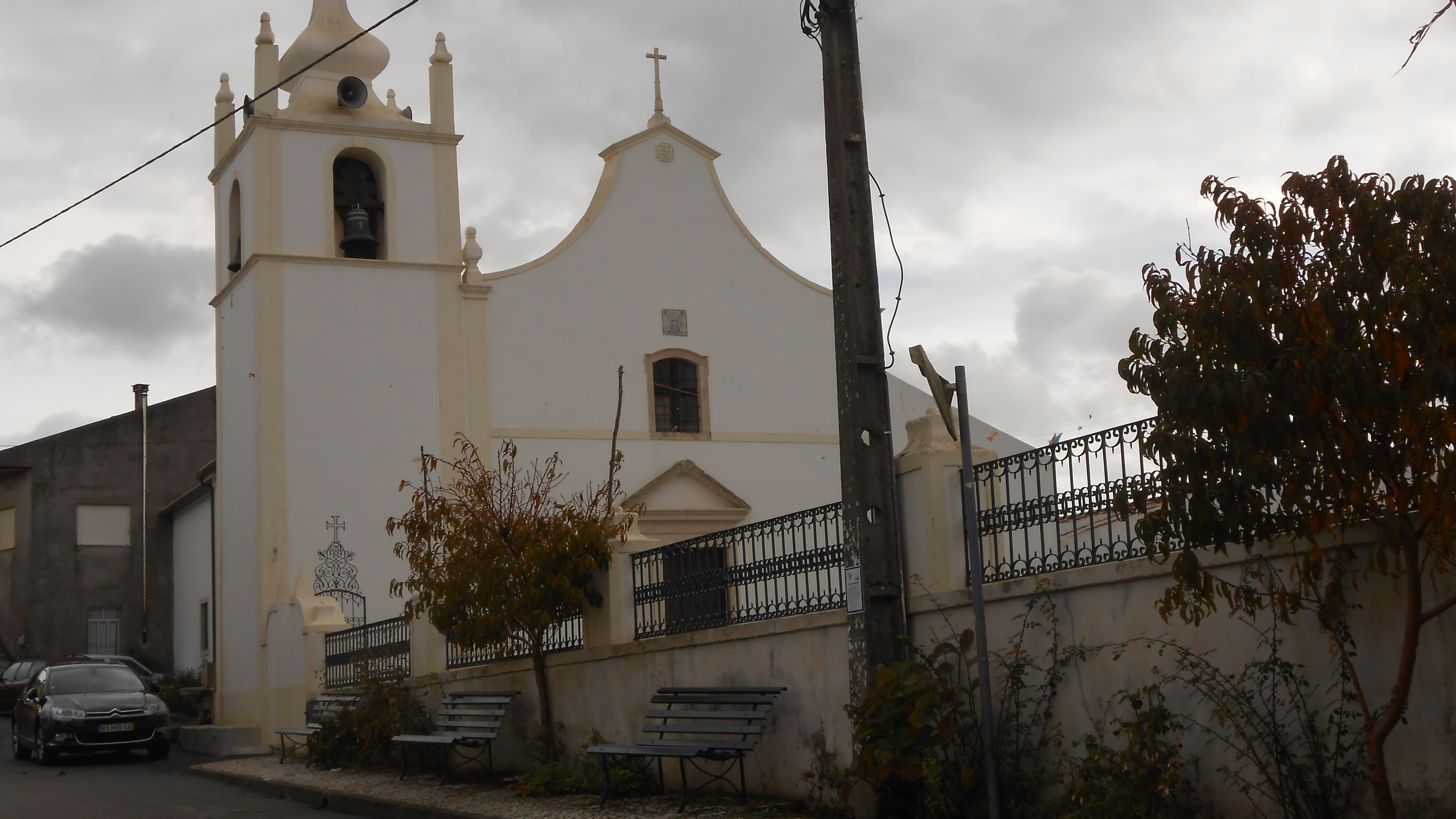 The parish church "Igreja de Nossa Senhora da Conceição" in the parish of Vila Nova da Barca, municipality Montemor-o-Velho, district of Coimbra, Portugal. It was built in the 17th century.